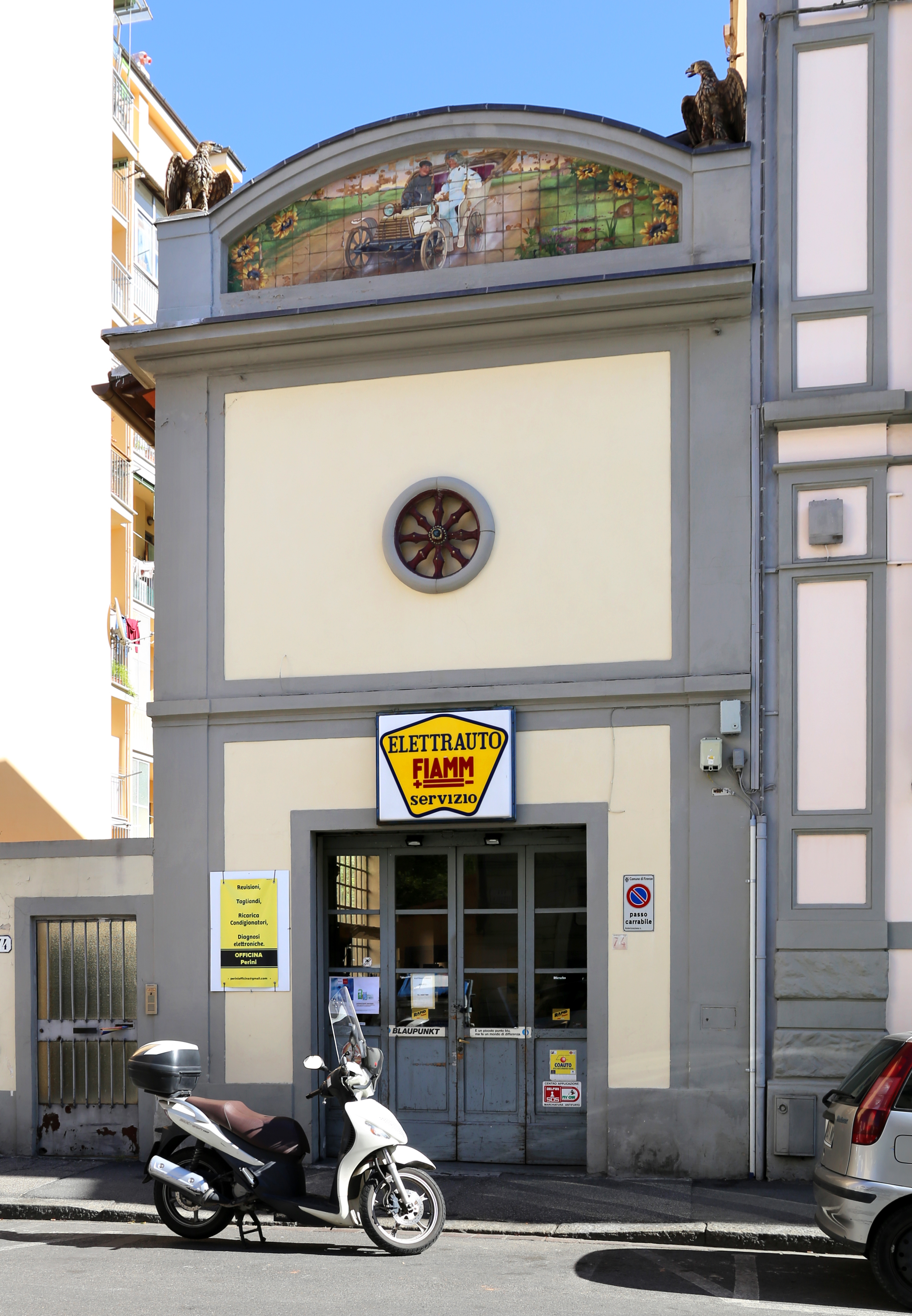 Garage Liberty (Florence)